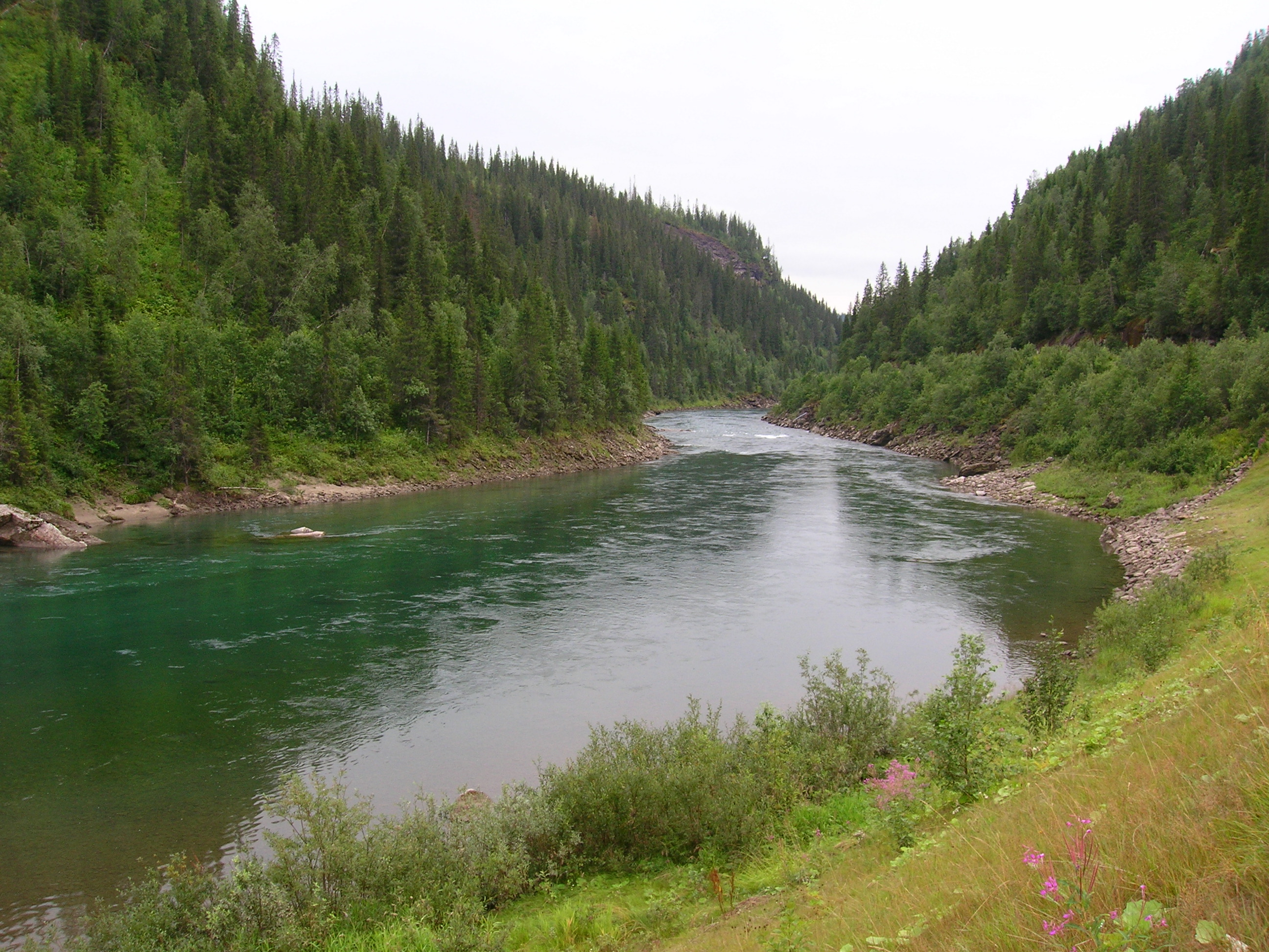 Ranelva seen from Illhøllia, south of Nevermoen in Dunderlandsdalen. Rana municipality, county of Nordland, Norway, Photo 6 August, 2007 with a Nikon Coolpix 5600 5,1 Megapixel camera.